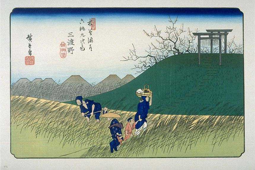 Midono on the Kisokaido, ukiyo-e prints by Hiroshige